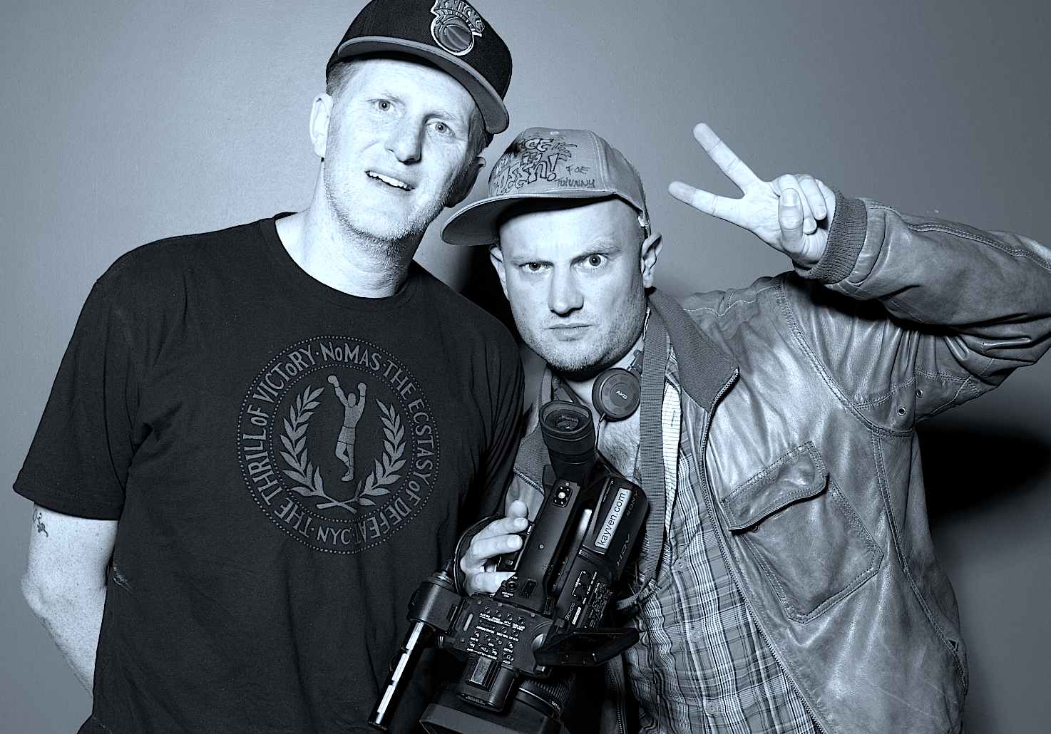 Romain Novarina says : " I admire Michael Rapaport since i have watched " True Romance " written by Quentin Tarantino and directed by Tony Scott in 1993 . Michael is a top actor with a real independent state of mind. He made a lot of unmissable roles without ever copying himslef in my opinion Michael is truly fantastic in the 2006 under rated movie " Special " by Hal Haberman and Jeremy Passmore. Write for you michael ! Romain Novarina Cult photo by my talentuous friend kayven, during a film shooting in Hollywood, Los Angeles, Califiornia Look also for Michael's new documentary on legendary hip-hop group A Tribe Called Quest